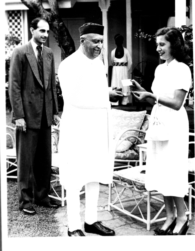 Universal News Press Photographers Bombay/22.12.49, A39aA base ball match was played o November 27, 1949, at the Cooperage, Bombay, between an American base bell team from Clcutta and Bombay team. In the Photo the Governor of Bombay is seen giving away prize to a winner.